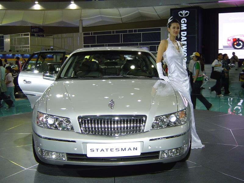 Seoul Motorshow KINTEX, Seoul, April 2005